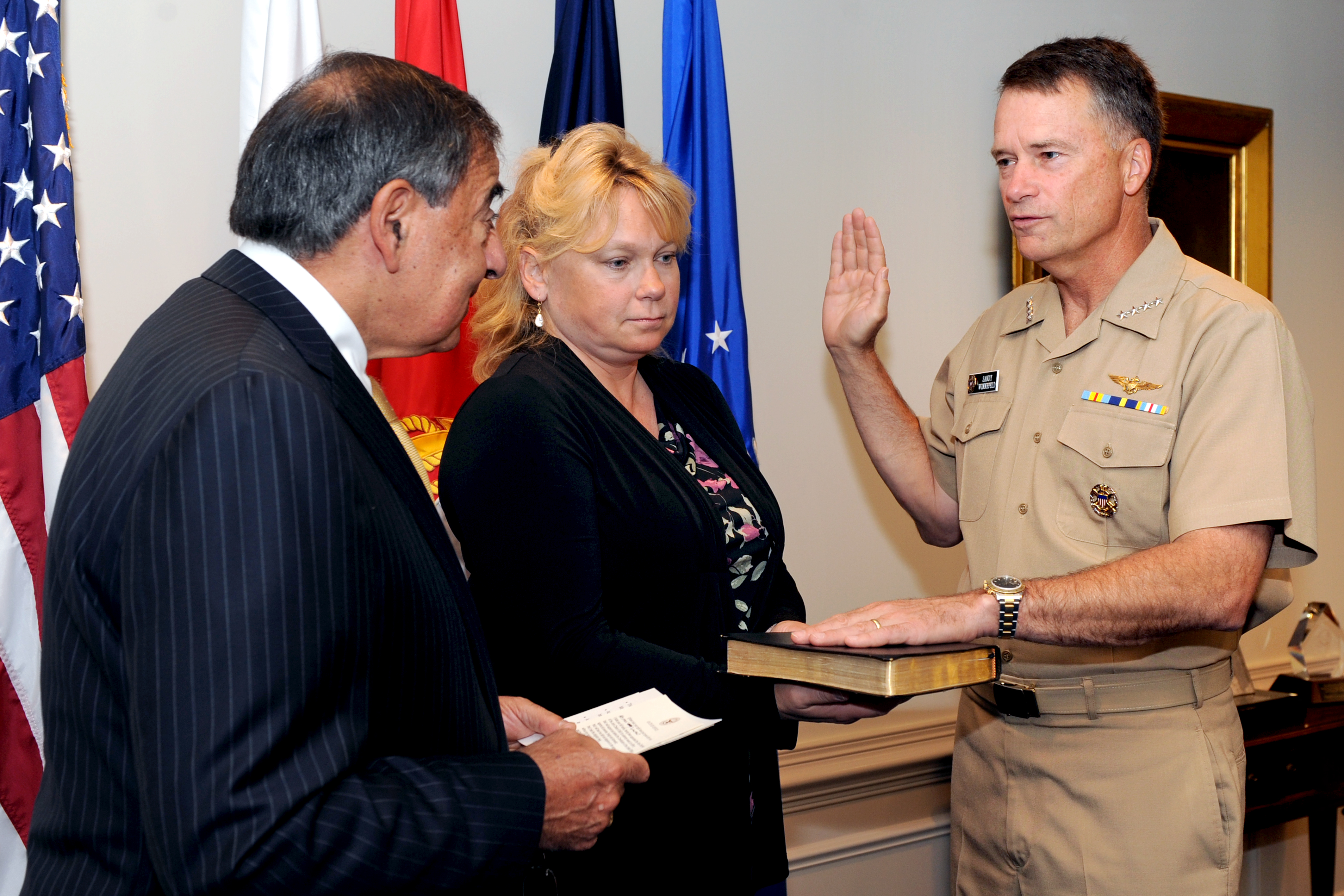 Secretary of Defense Leon E. Panetta swears in Adm. James A. Winnefeld Jr. as the new Vice Chairman of the Joint Chiefs of Staff during a ceremony conducted in Panetta's Pentagon office on Aug. 4, 2011. Winnefeld's wife Mary holds the Bible.